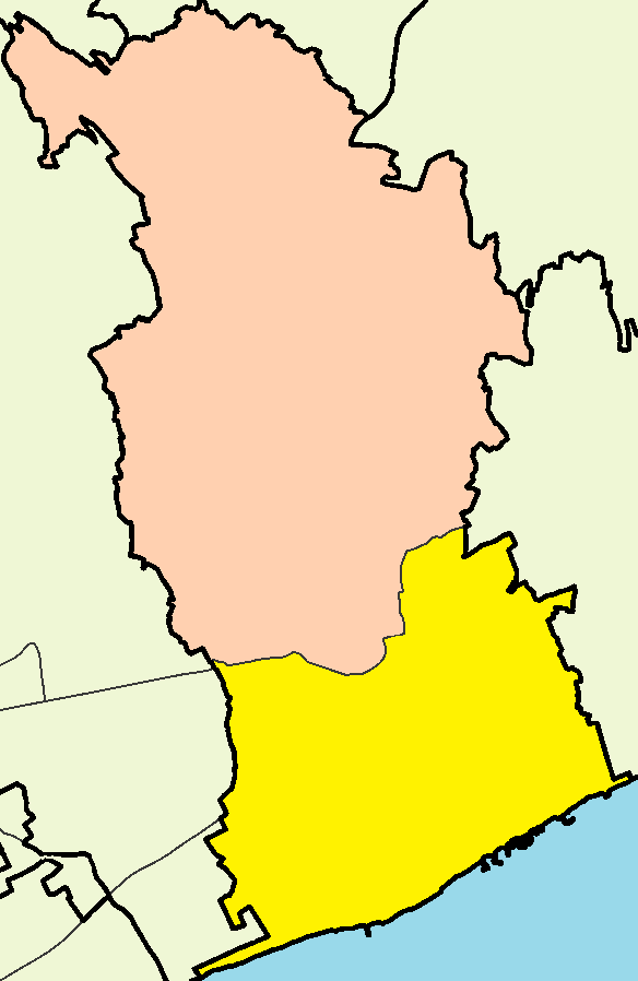 Germasogeia River in Germasogeia Municipality.